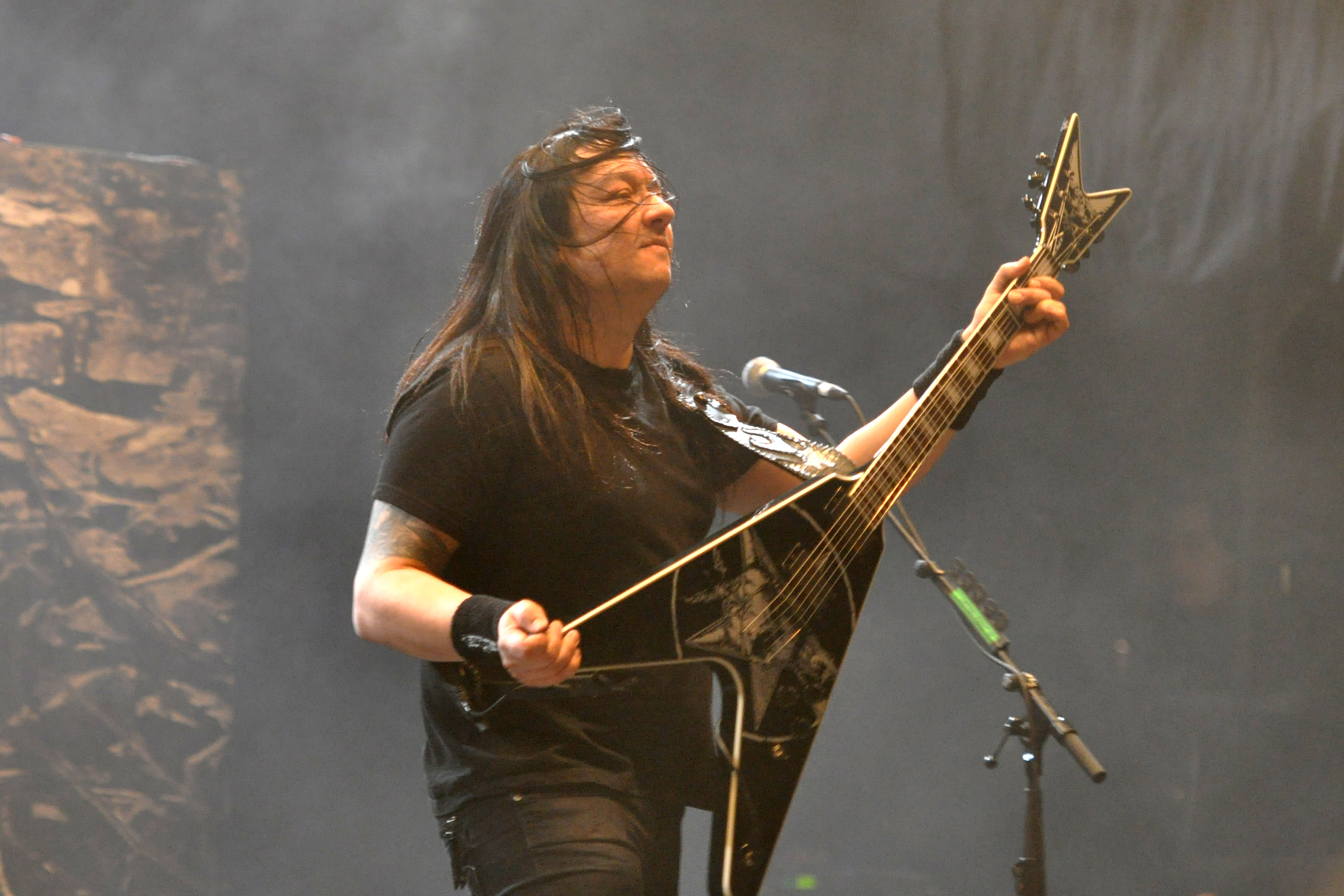 Eric Peterson of Testament at Paspop 2013, Schijndel, NL